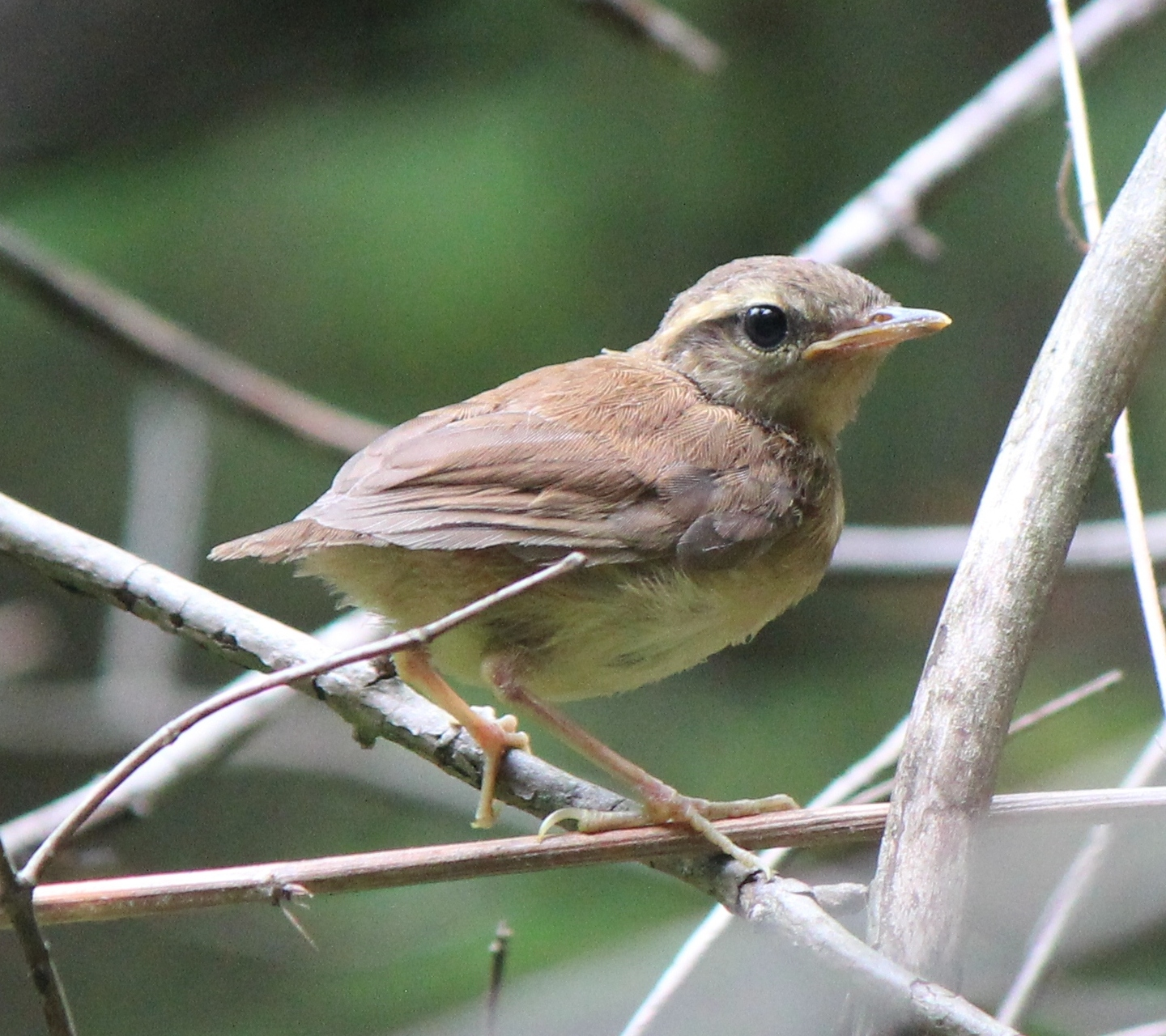 Asian Stubtail (Urosphena squameiceps) in Aichi prefecture, Japan.